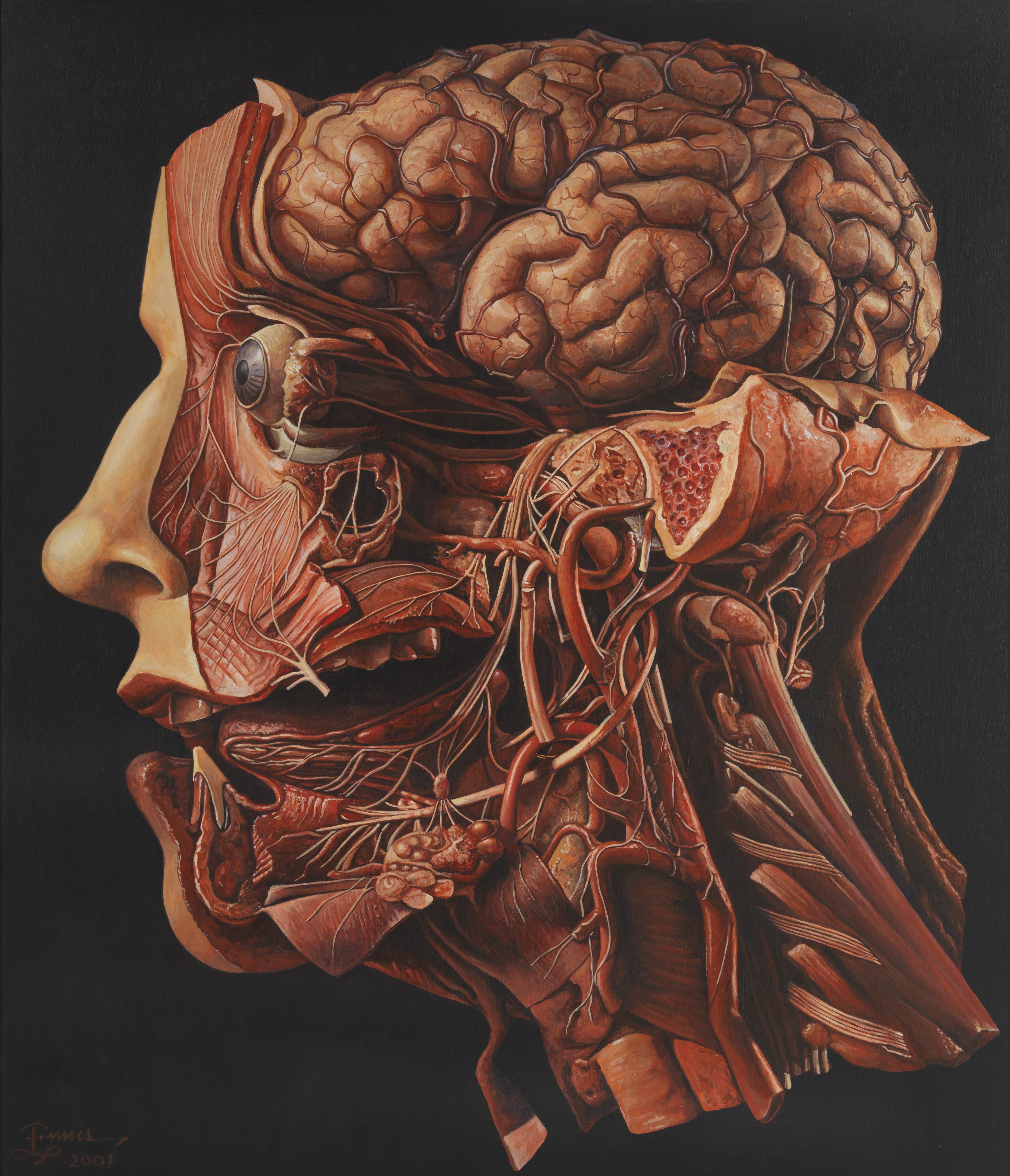 A human head dissected: "In memoriam". Acrylic painting by R. Ennis, 2001. The painting was painted as a memorial to a friend of the painter who had died of squamous cell carcinoma, manifested in cancer first of the lip and subsequently of much of the face. Rather than paint a traditional memento mori, the artist decided to create something more positive: an anatomical tribute to the complexity and beauty of the human head. For the anatomical details the artist based his composition on small wax models at La Specola in Florence, while also consulting a pathologist and a surgeon about the layering of the various organs crammed together into the head. Iconographic Collections Keywords: Anatomy; Richard. Ennis; Dissection